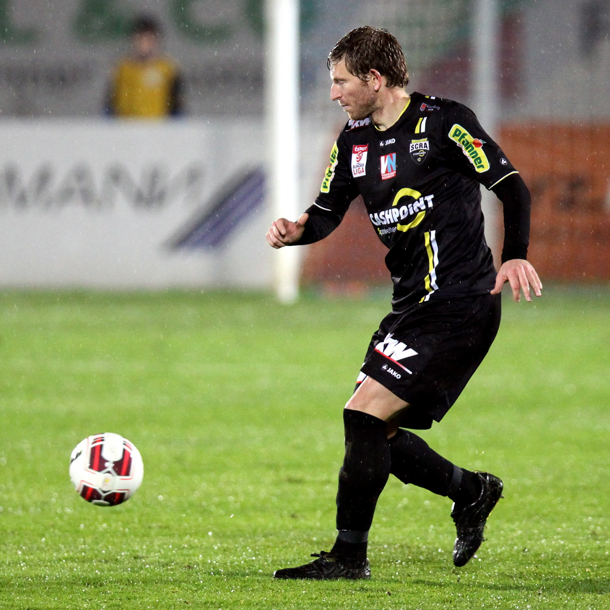 2014–15 Austrian Football Bundesliga: SC Wiener Neustadt vs. SC Rheindorf Altach (2:0 / 0:0) at 2014-12-06 in the Stadion Wiener Neustadt. – The photo shows en: (SC Wiener Neustadt/SC Rheindorf Altach). The making of this work was supported by Wikimedia Austria. For other files made with the support of Wikimedia Austria, please see the category Supported by Wikimedia Österreich.